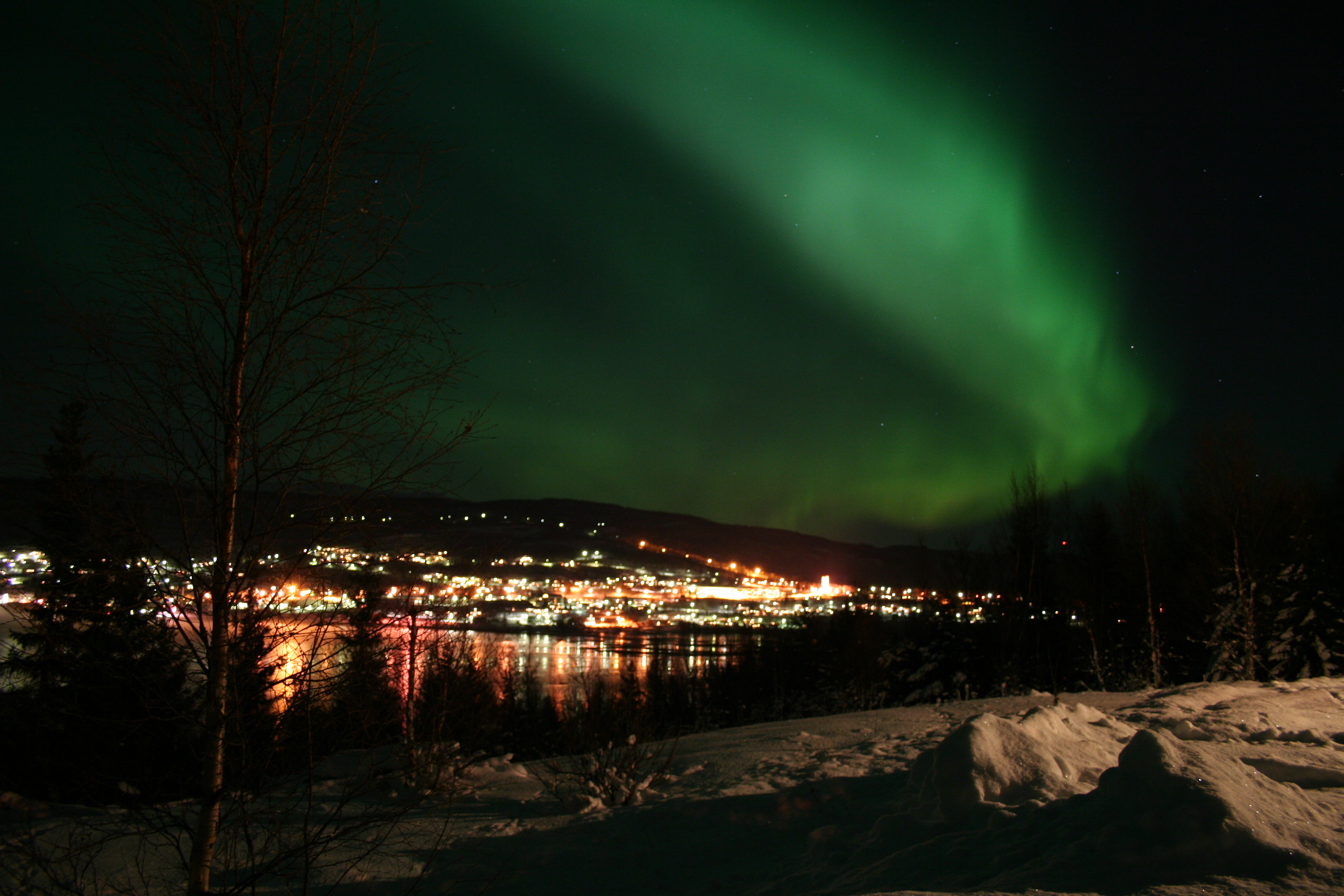 Aurora Borealis as seen from Laberg, Salangen, Troms, Norway on new years eve 2005. The adminitstrative centre in the municipality, Sjøvegan, can also be seen.